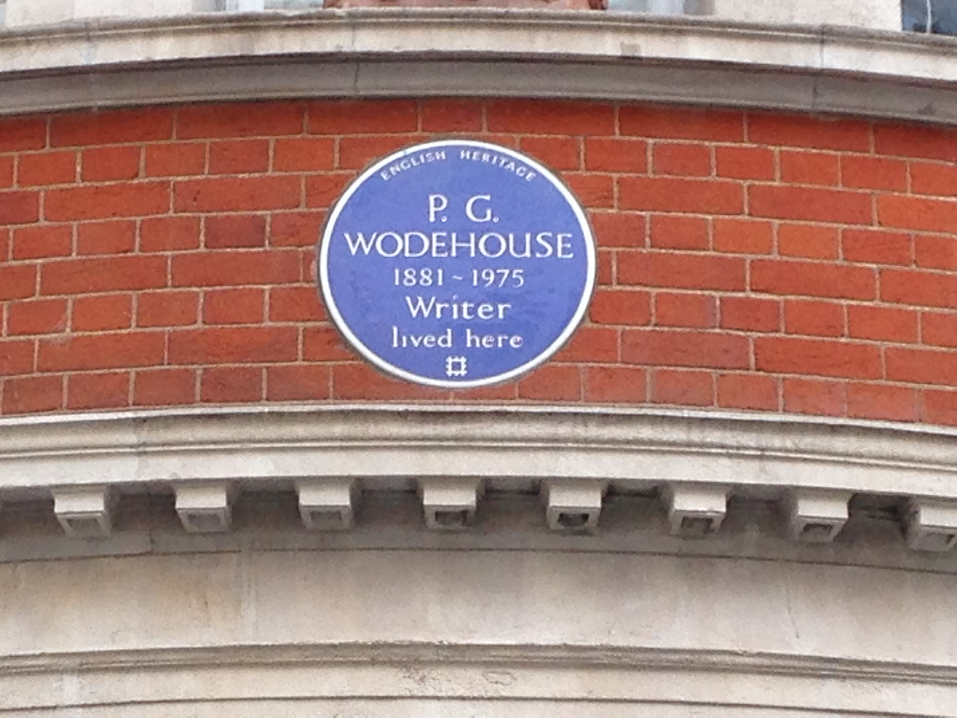 The English Heritage blue plaque for P.G. Wodehouse at 17 Dunraven Street, Mayfair, London W1K 7EG in the City of Westminster.